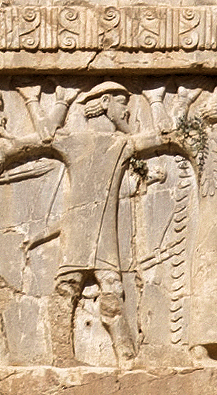 Xerxes I tomb Ionian with petasos soldier circa 480 BCE